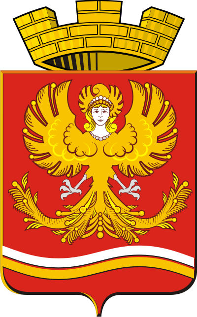 Mikhailovsk (Sverdlovsk oblast), coat of arms